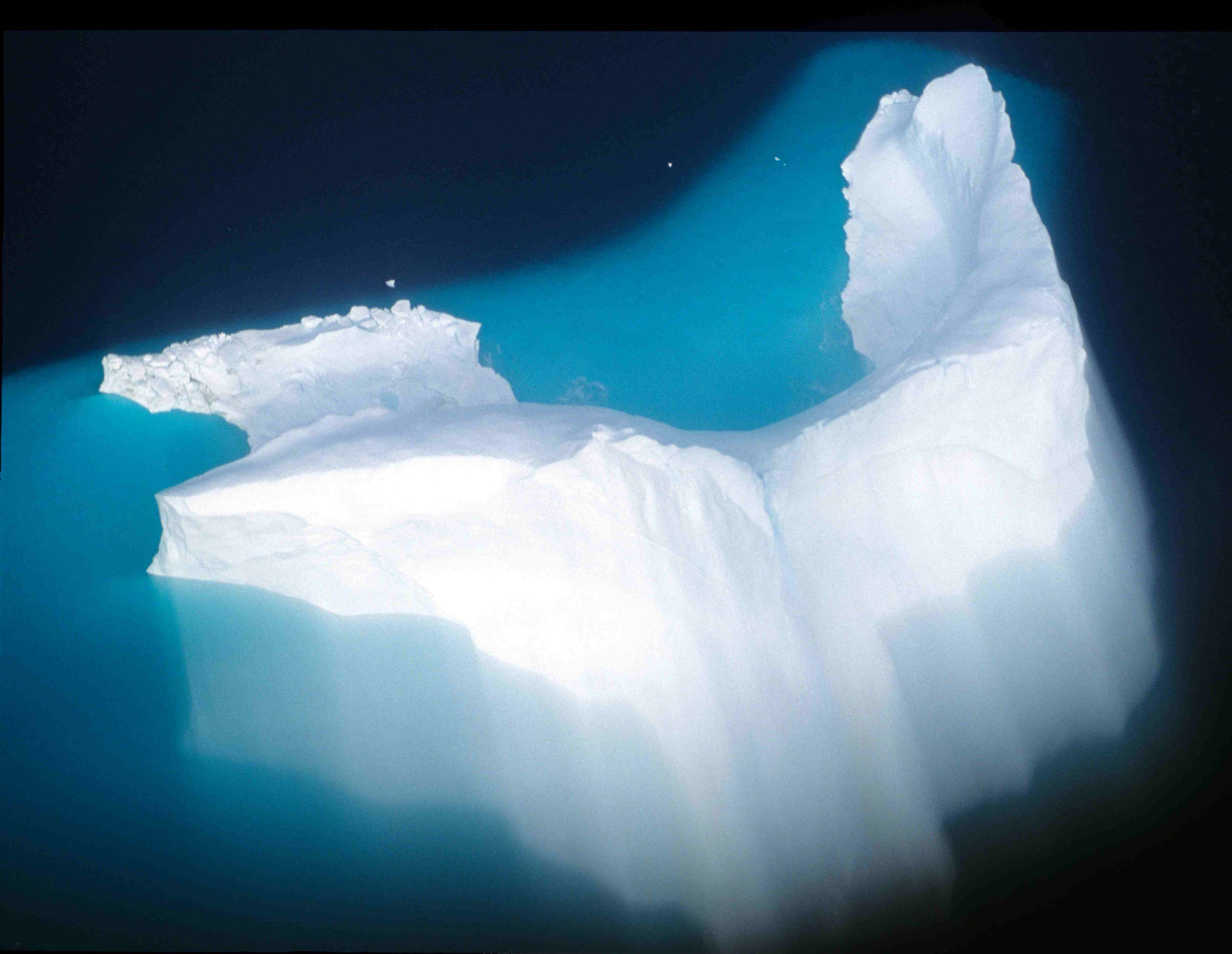 Iceberg near north-eastern coast of Baffin Island